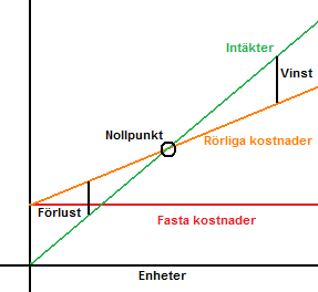 Break-even in swedish